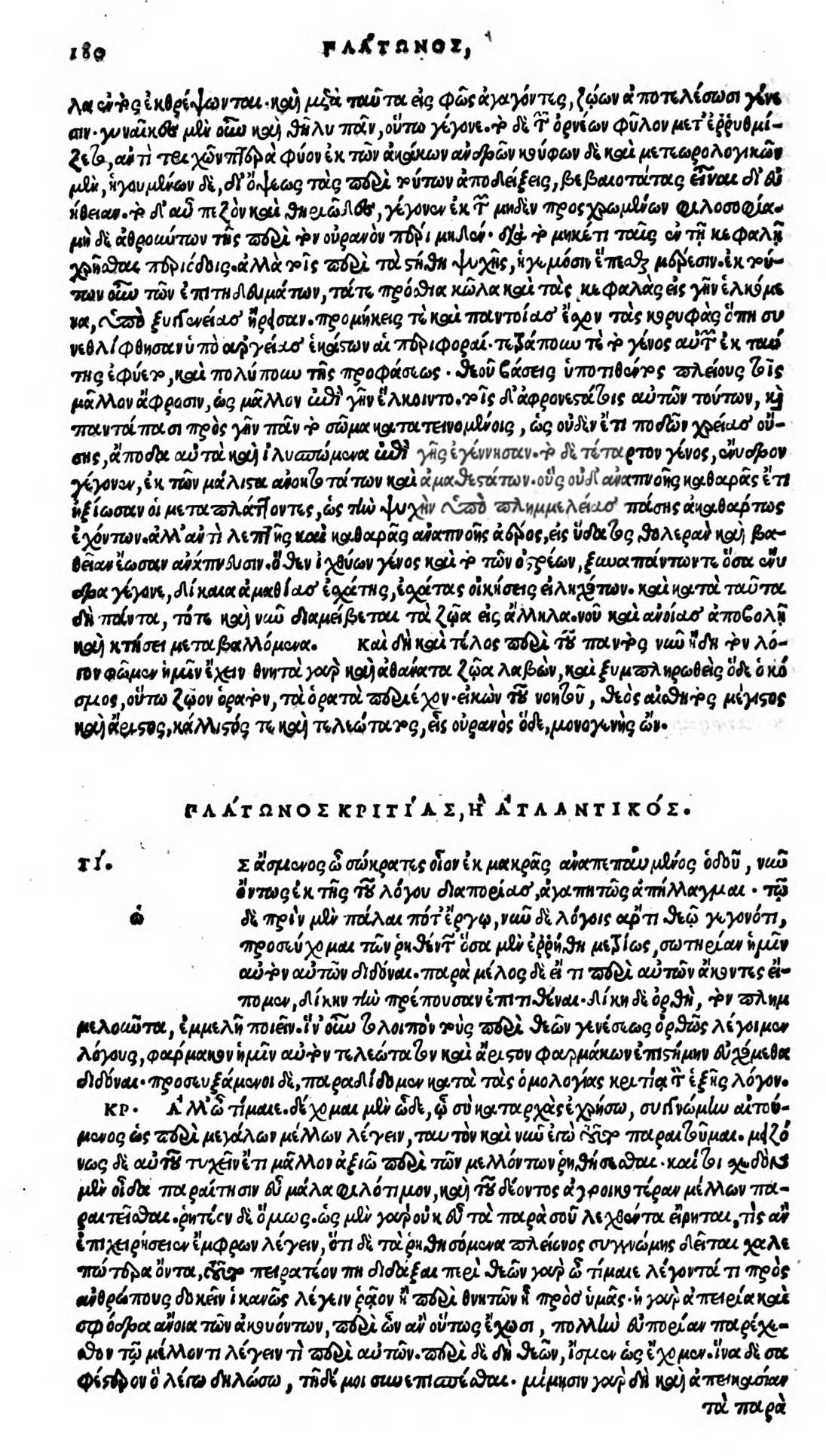 Kritias beginning. Editio princeps, Venice 1513.